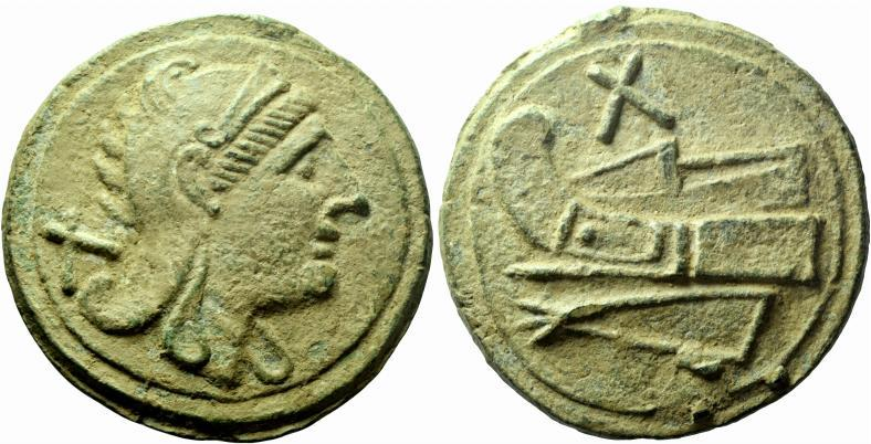 Decussis or denarius ca. 215, Æ 1075g. Head of Roma r., wearing Phrygian helmet; behind, X. Rev. Prow l.; above, X. Haeberlin pl. 46, 1-3. Sydenham Aes Grave 67. Kent-Hirmer pl. 7, 15. Sydenham 98. Crawford 41/1.